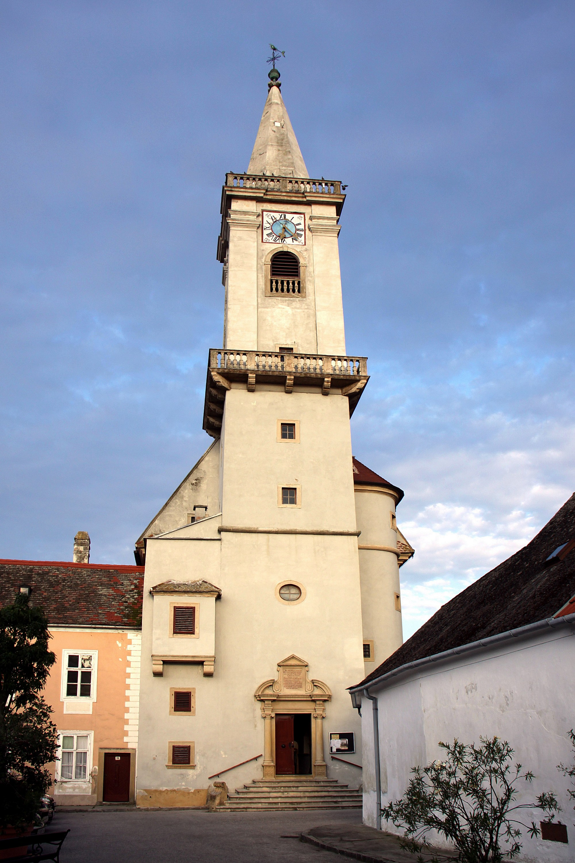 Church (catholic) in Rust in Burgenland (Austria)